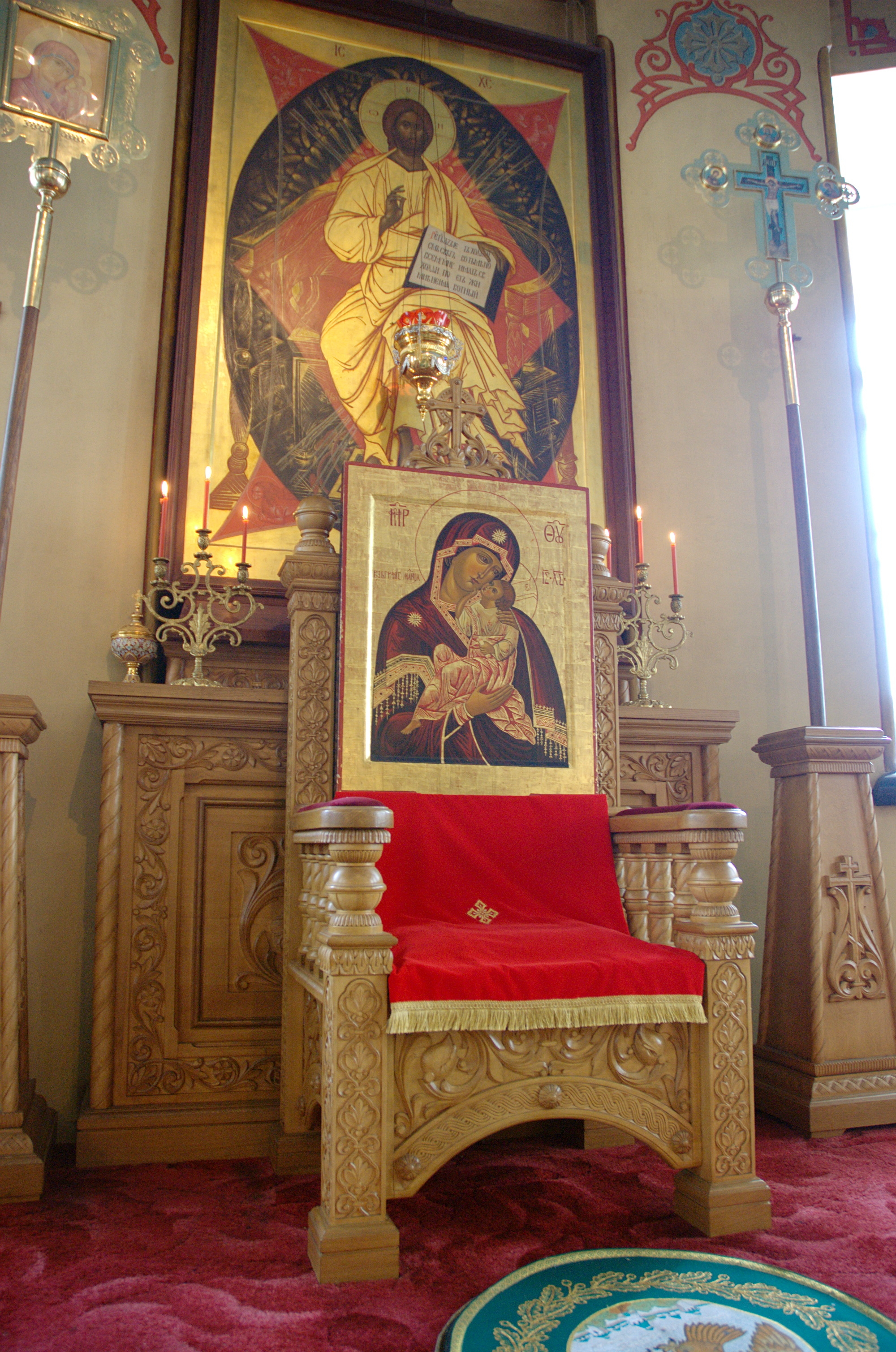 Valaam Monastery. Transfiguration Cathedral. High place with Bishop's throne.